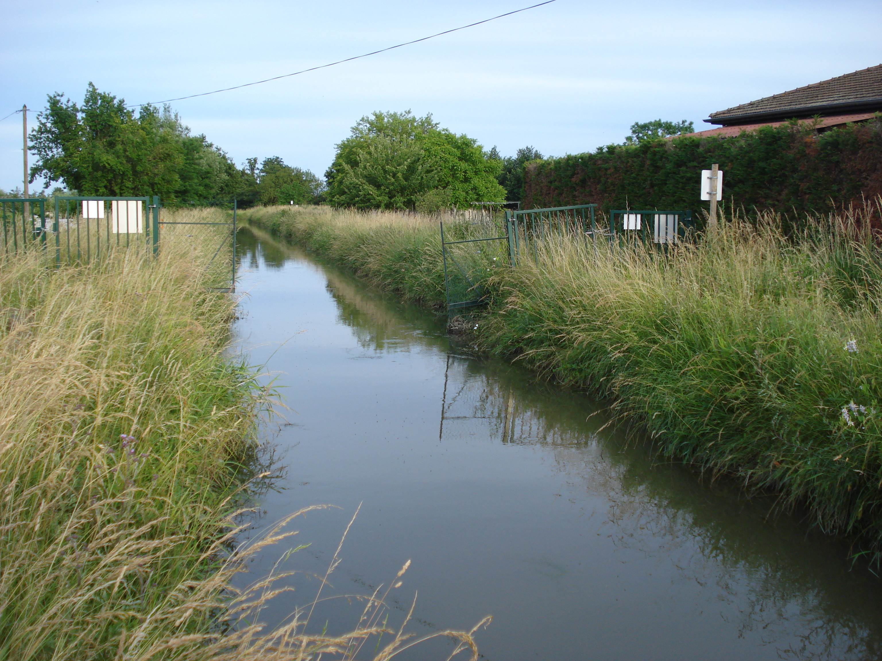 Canal du Forez at Montbrison, looking eastwards